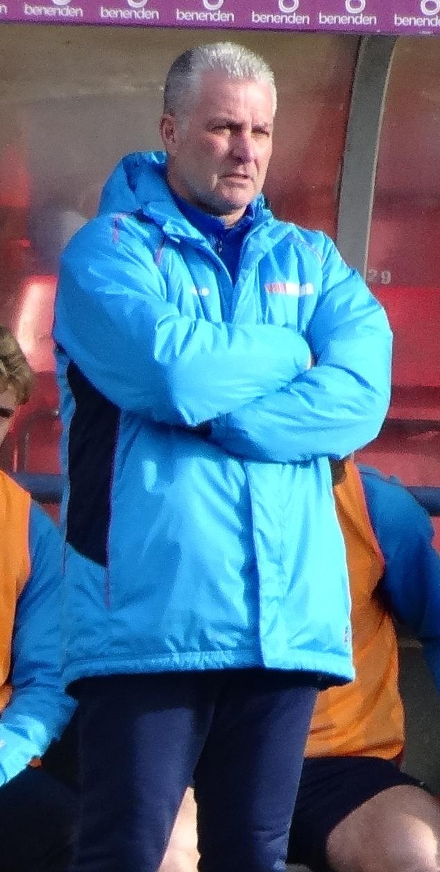 Gary Mills managing York City against Eastleigh at Bootham Crescent, York on 4 March 2017